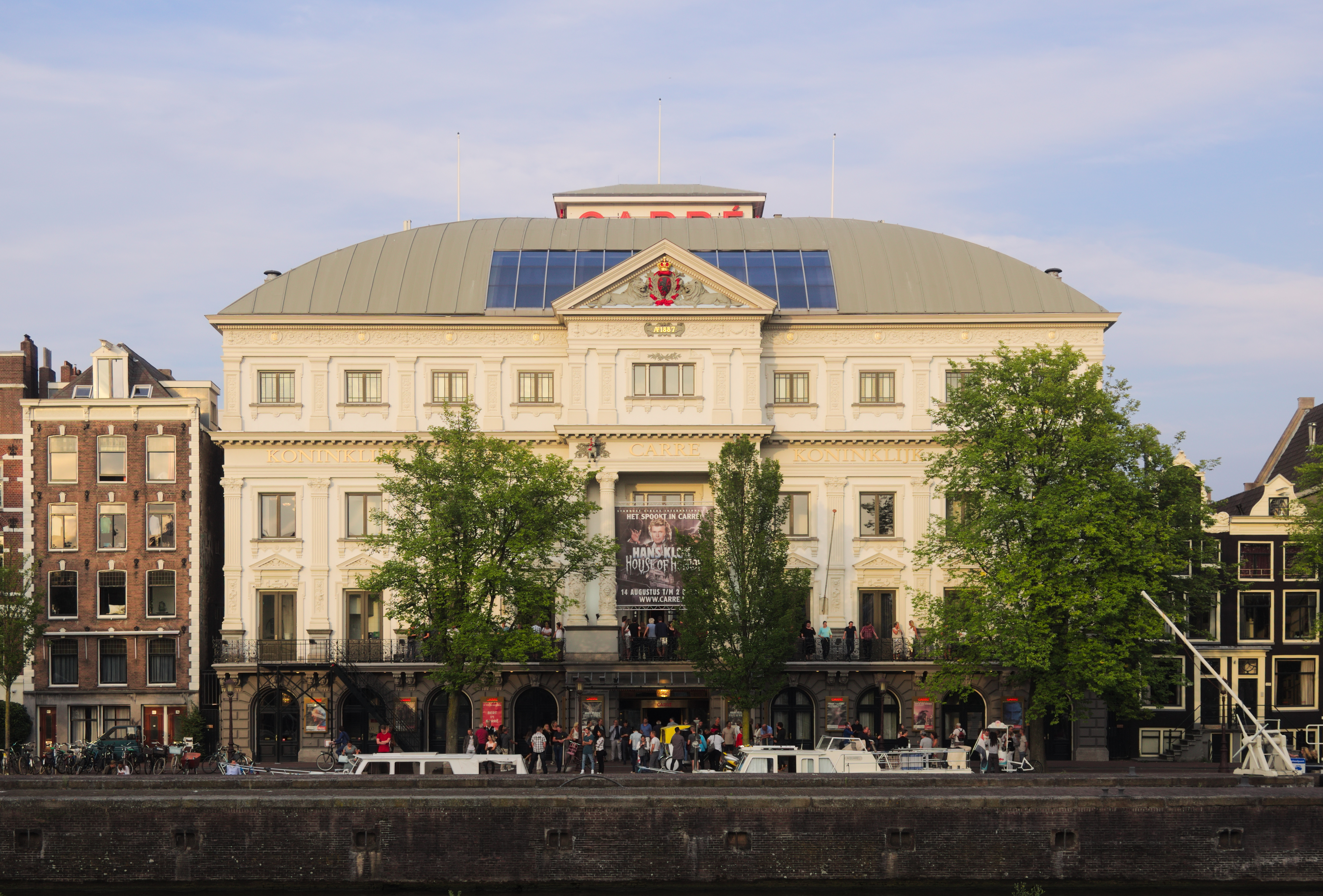 View of Carre Theatre from across the Amstel, Amsterdam